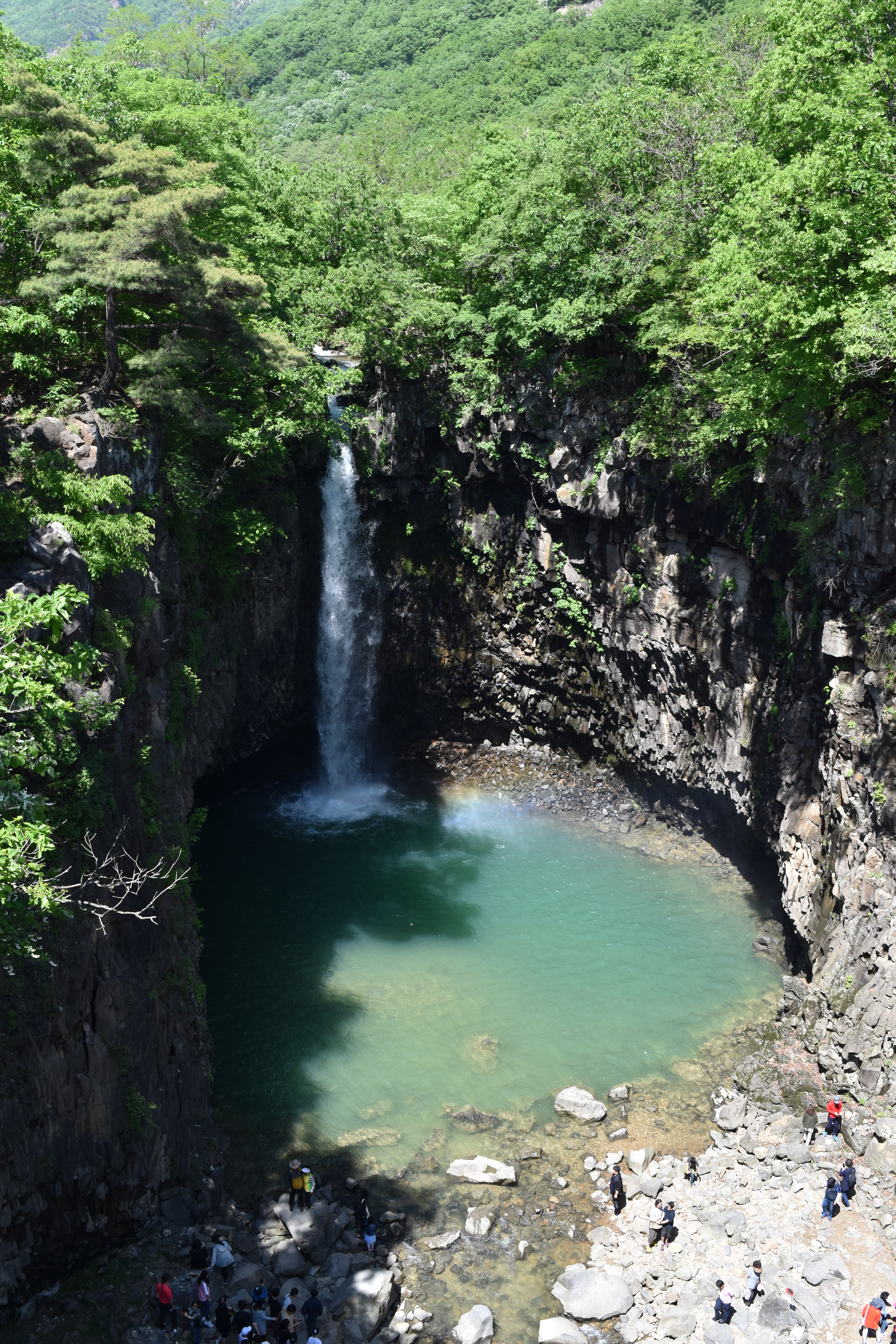 Jaein Waterfall in Hantan river at Yeoncheon, Gyeonggi-do, South Korea